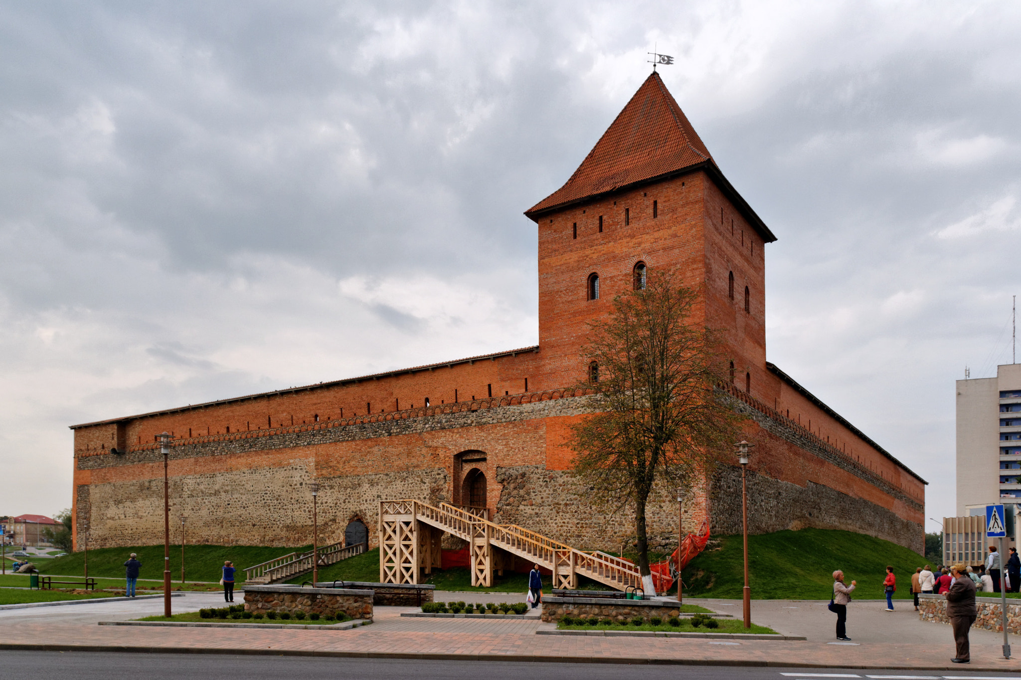 500px provided description: Belarus. Lida Castle ????????. ??????? ????? [#autumn ,#city ,#????? ,#september ,#castle ,#????? ,#????? ,#belarus ,#lida ,#?????????? ,#???????? ,#2014 ,#???????? ,#???? ,#lida castle ,#??????? ?????]